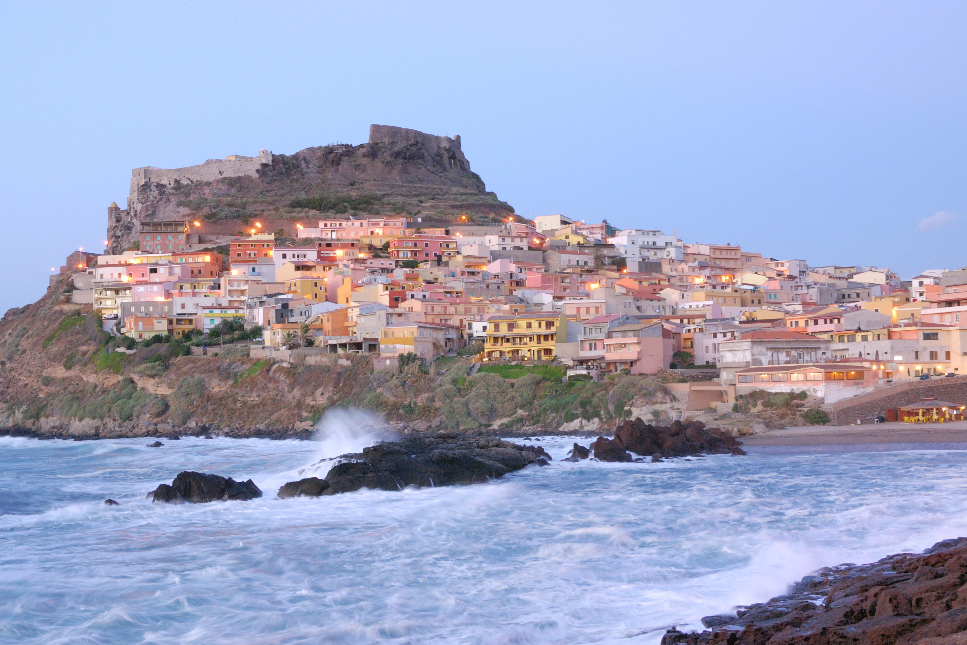 View of Calstelsardo town and its castle from "Via Lungomare Anglona"